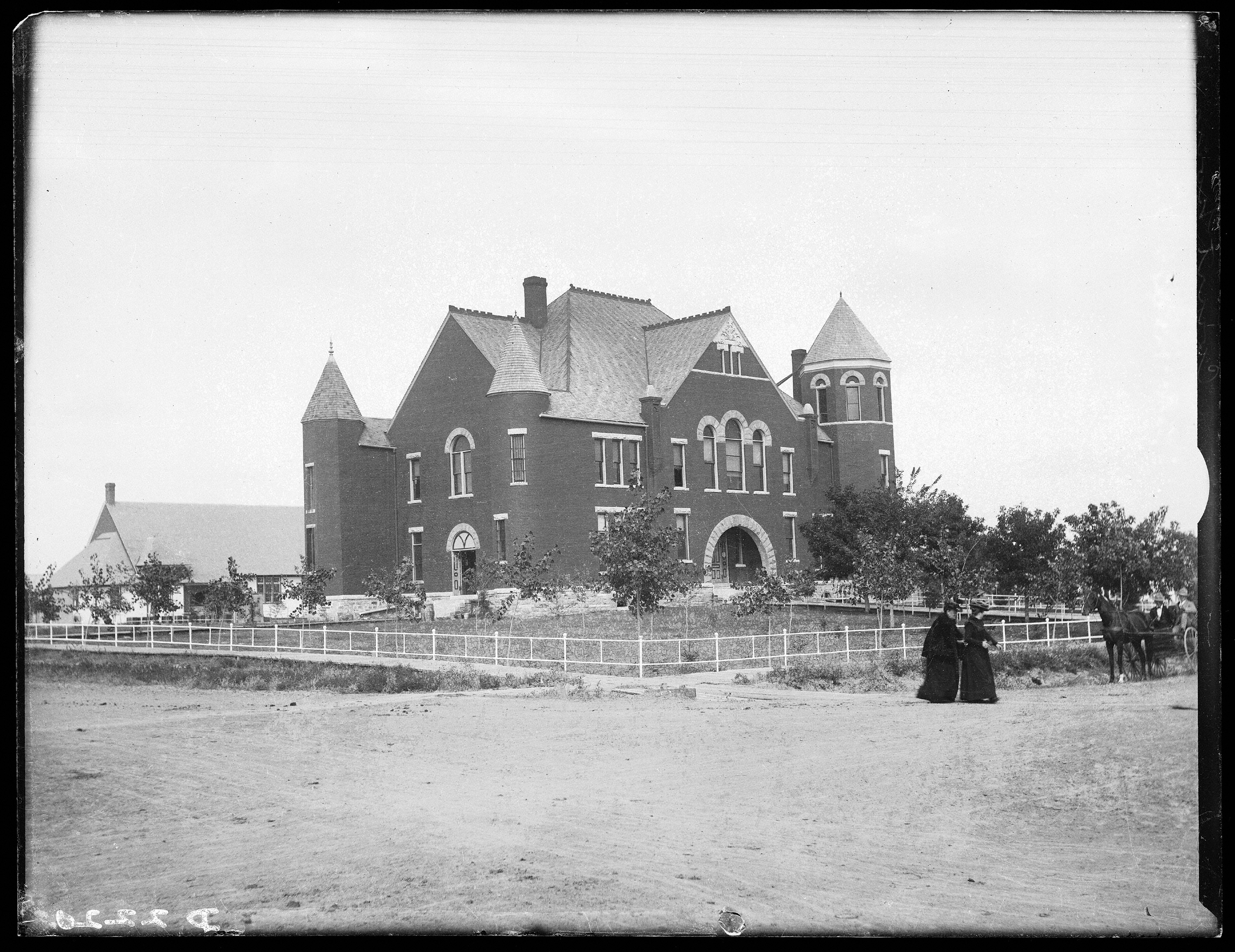 Courthouse in Broken Bow